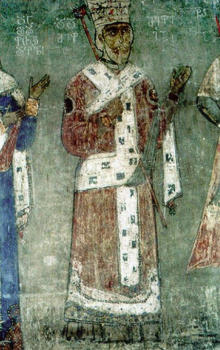 George III, King of Georgia. Mural from the Betania monastery.